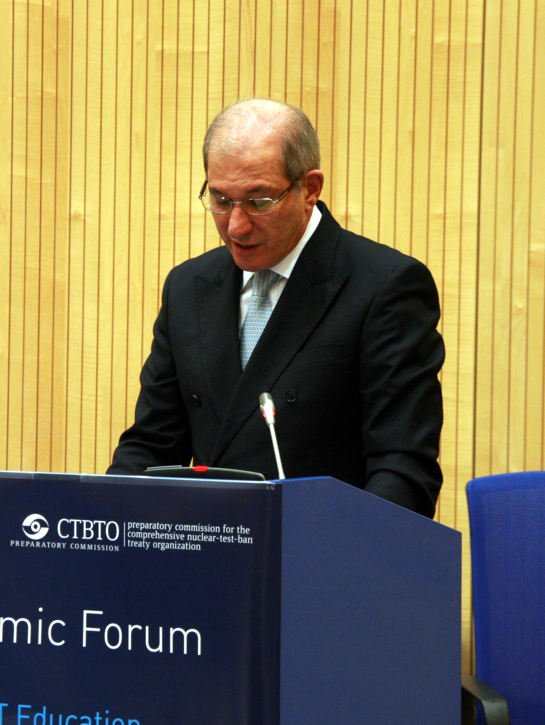 Ahmet Üzümcü, Director-General of the Organization for the Prohibition for Chemical Weapons, addressing participants at the opening session of the 2013 CTBT Academic Forum.